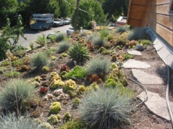 One of the ecoroofs at People's Food Co-op in Portland, Oregon.